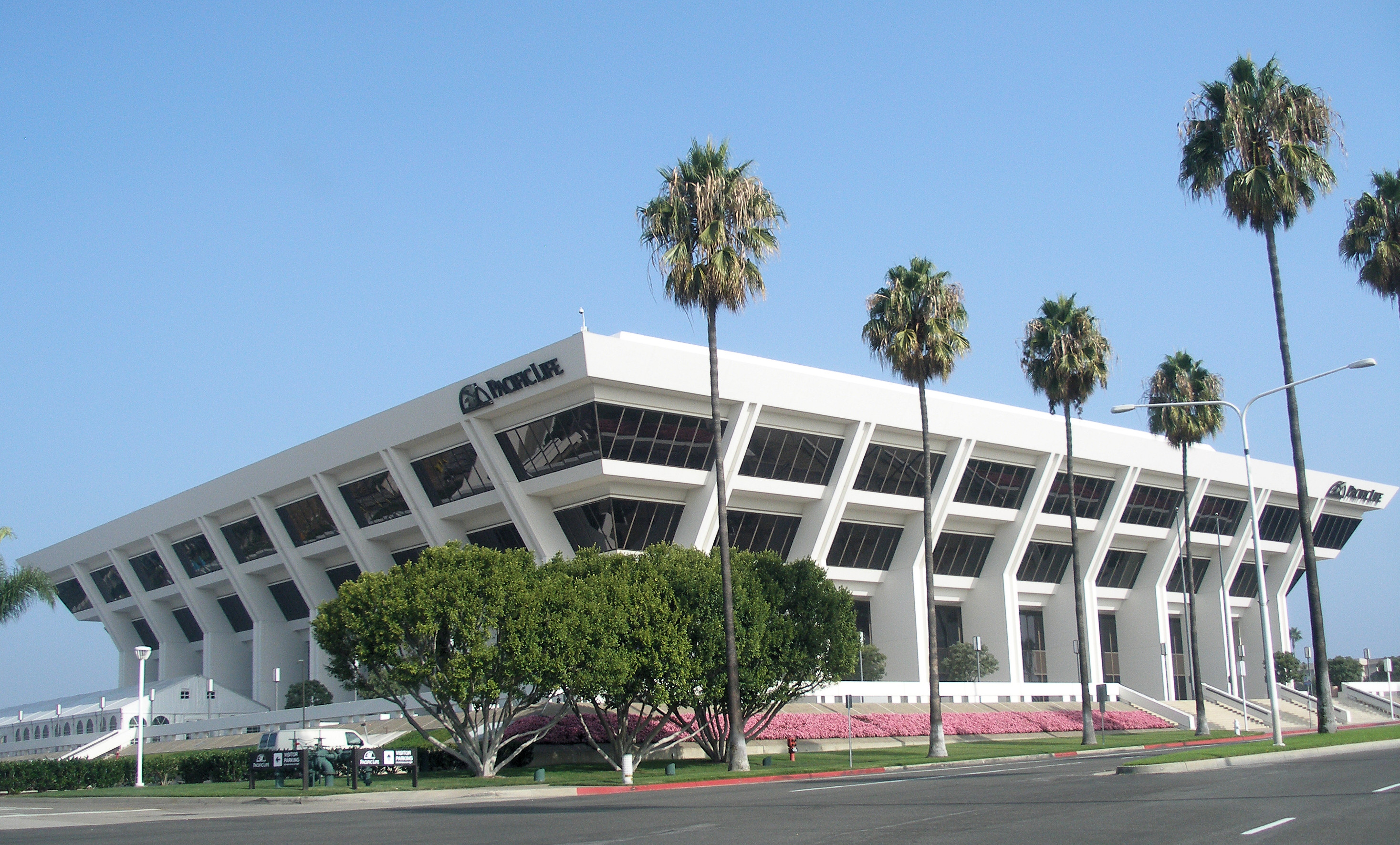 The headquarters of Pacific Life Insurance Company in Newport Beach, at Newport Center. Photographed on November 12, 2007 by user Coolcaesar.